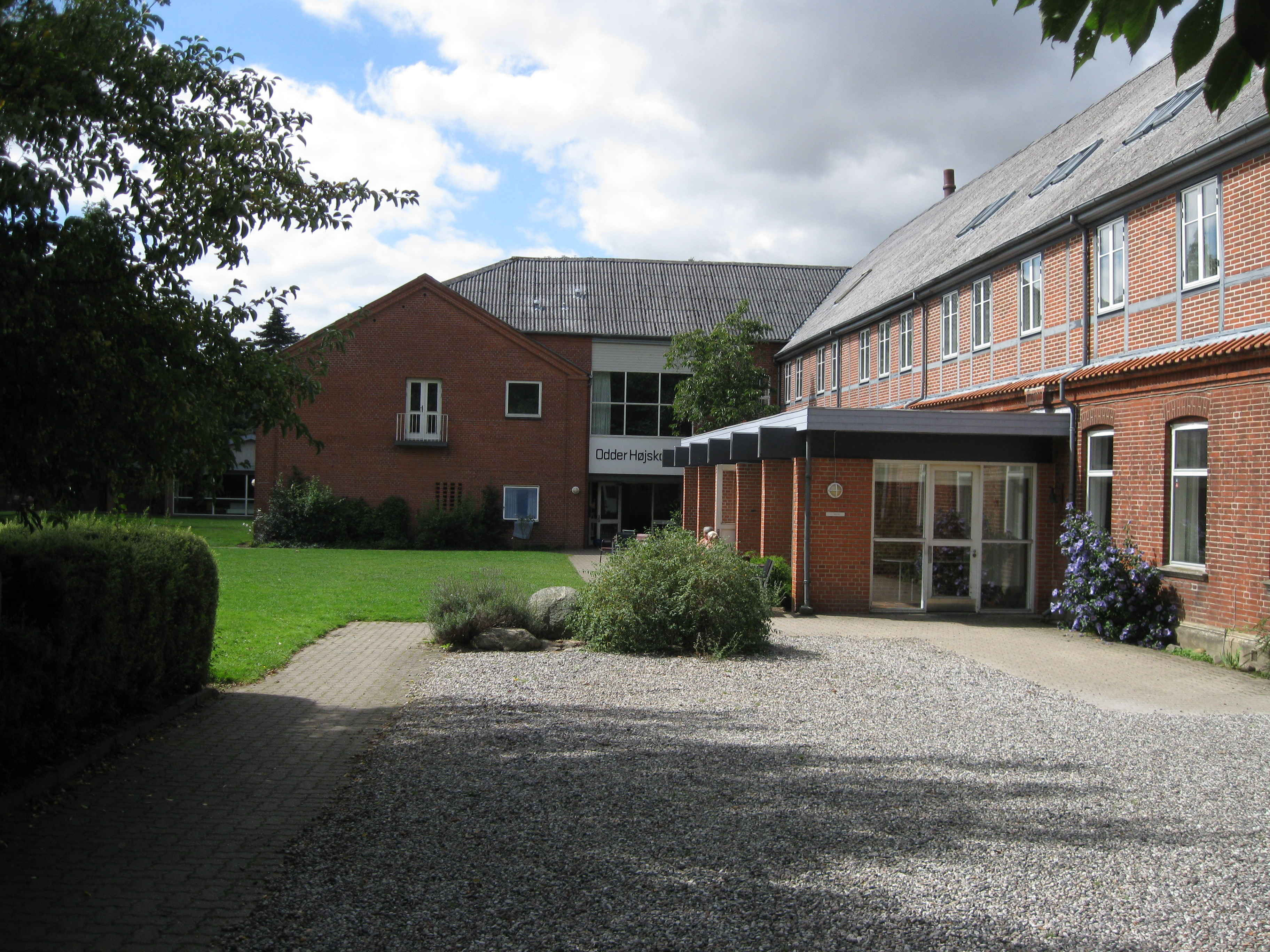 Odder Højskole, Denmark